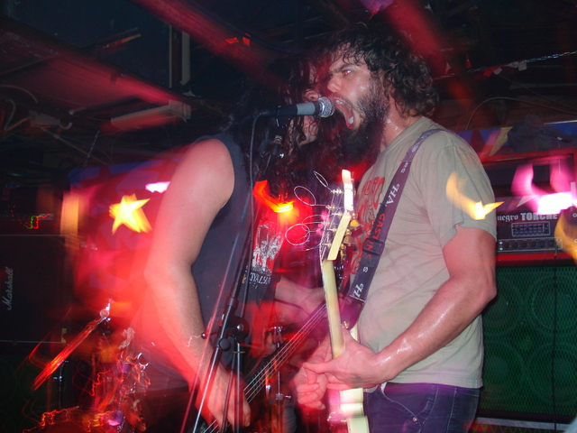 Baroness Live singer John and bassist Summer